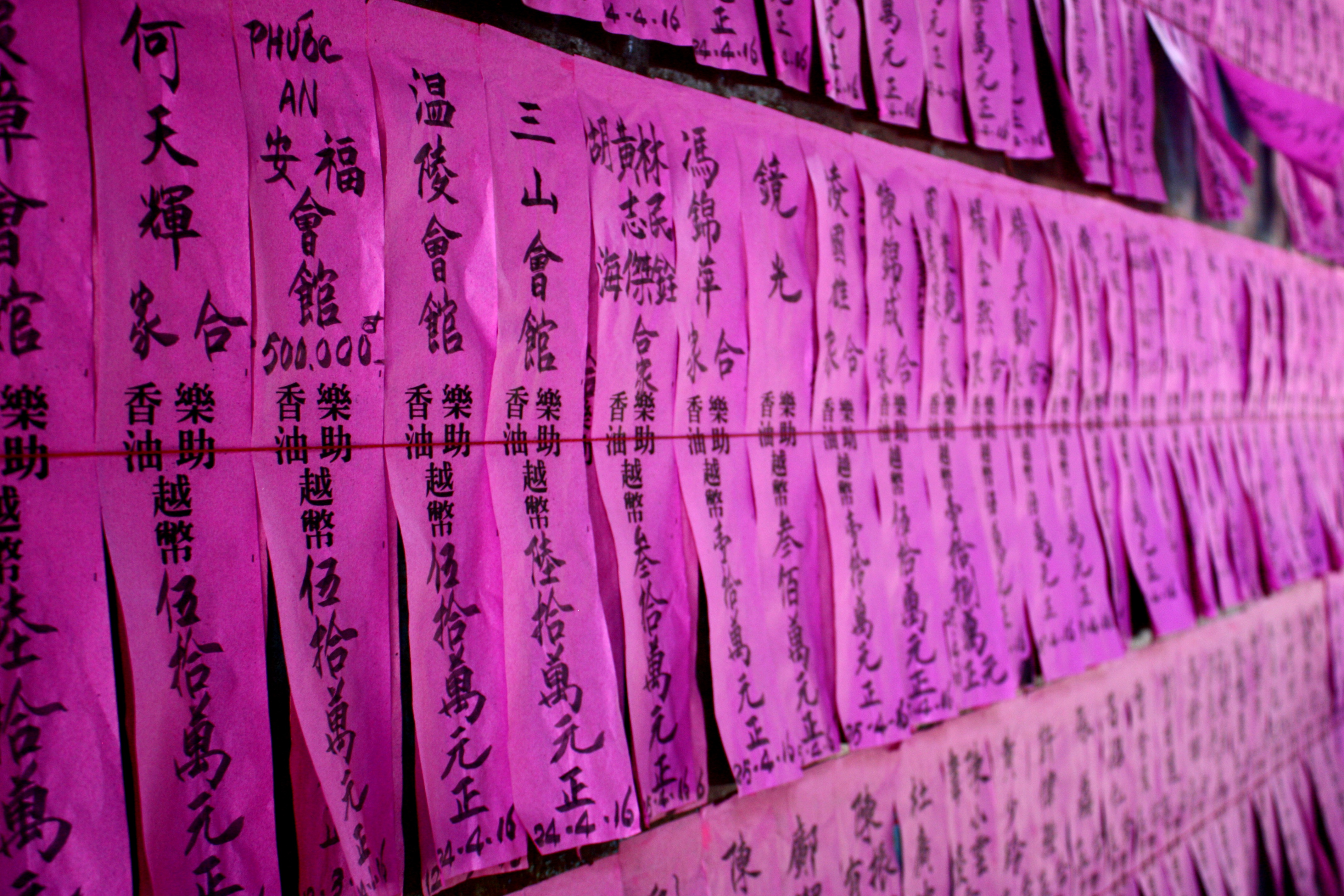 Vows asked to a deity at a Chinese temple in Vietnam (you can see the third from the left has Vietnamese words).